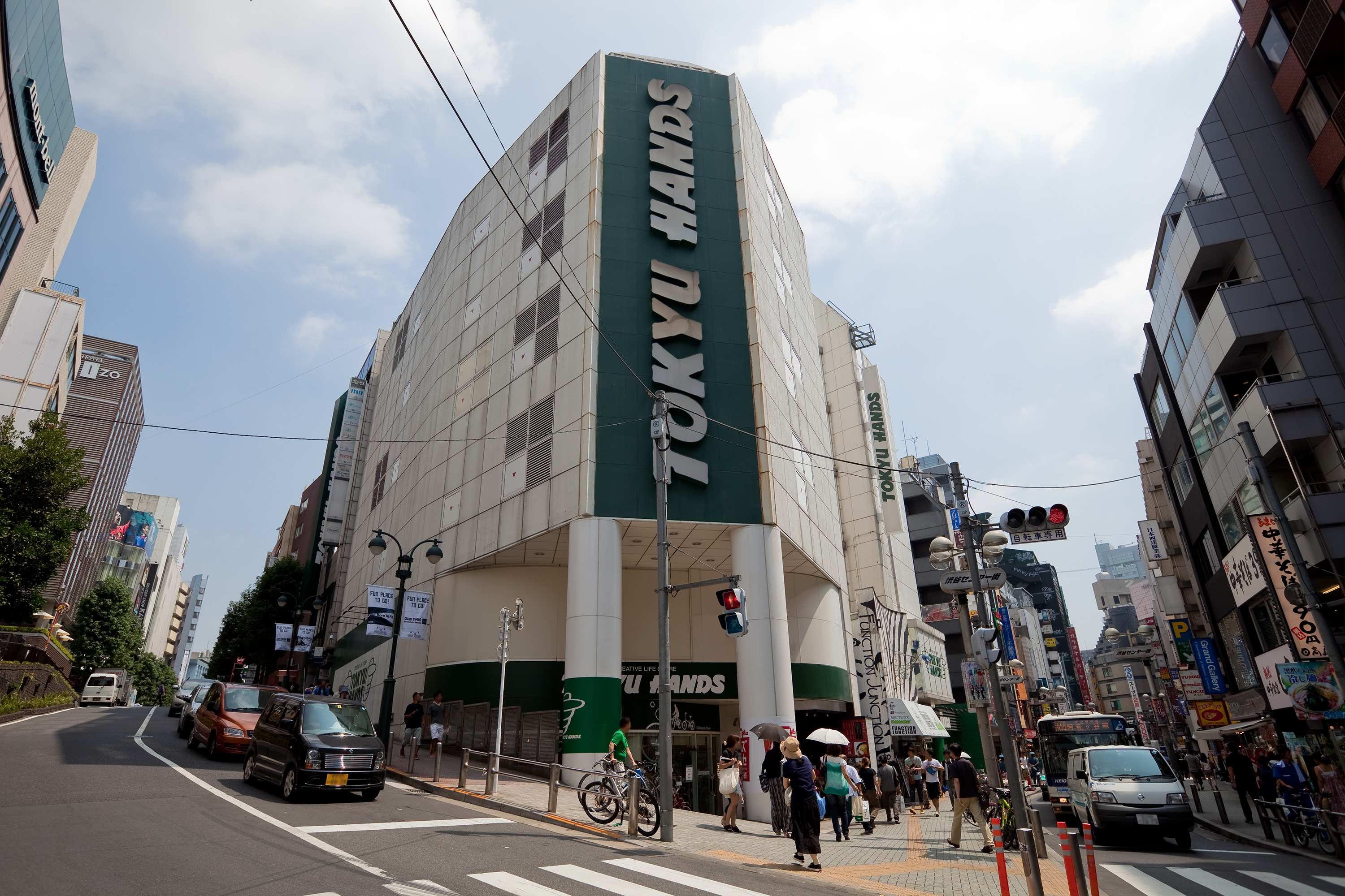 TOKYU HANDS Shibuya